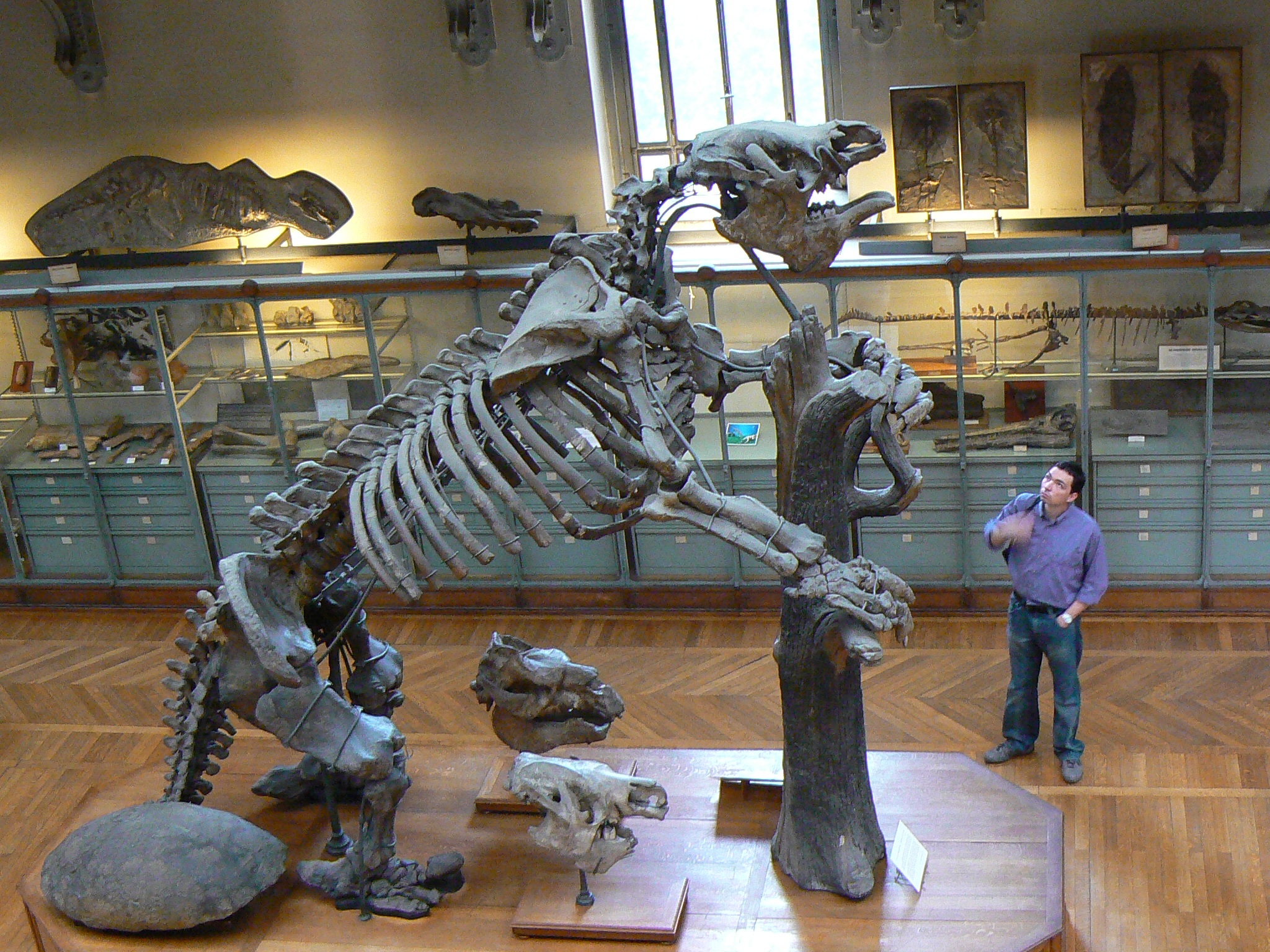 megatherium americanum